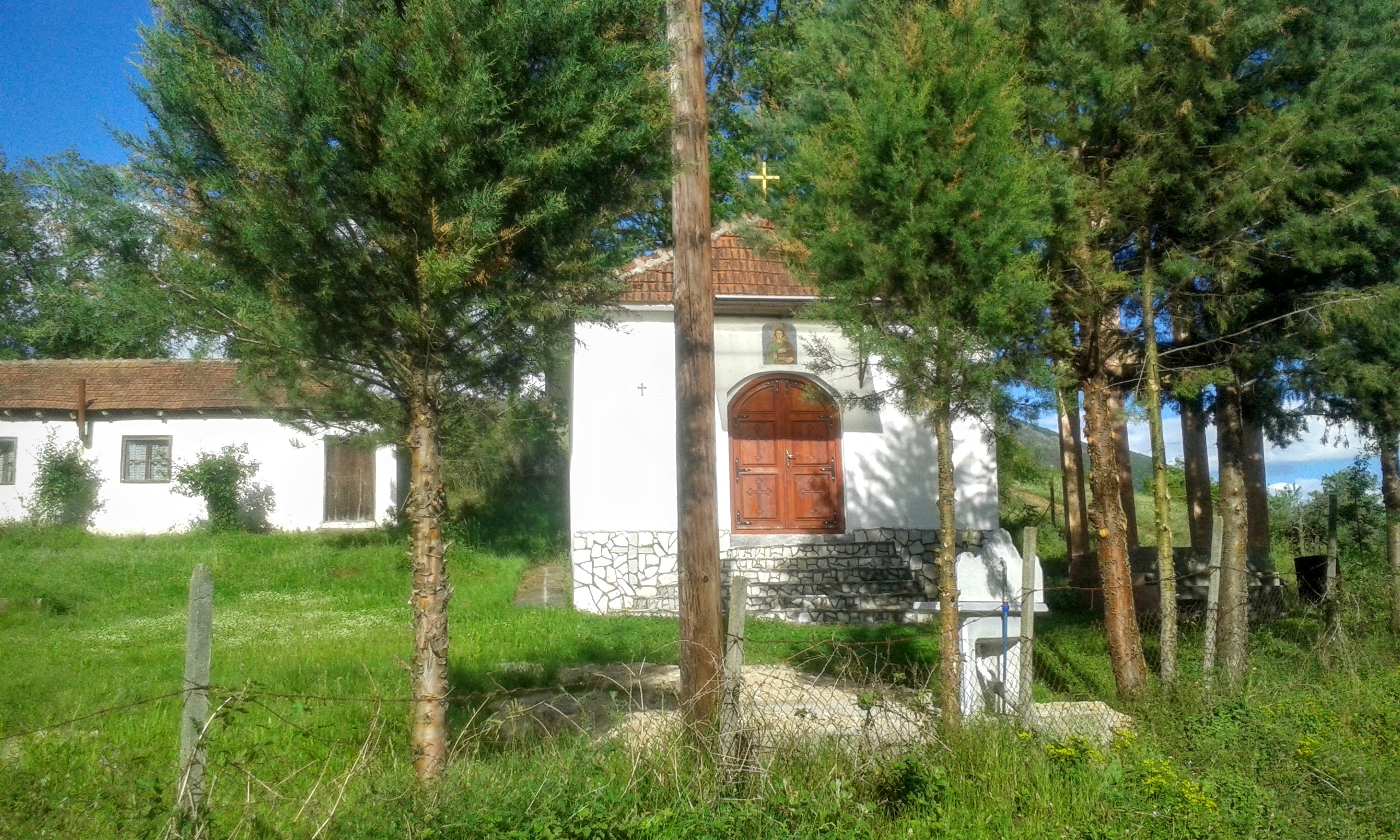 View of the St. Pantaleon's Church in the village Sogle